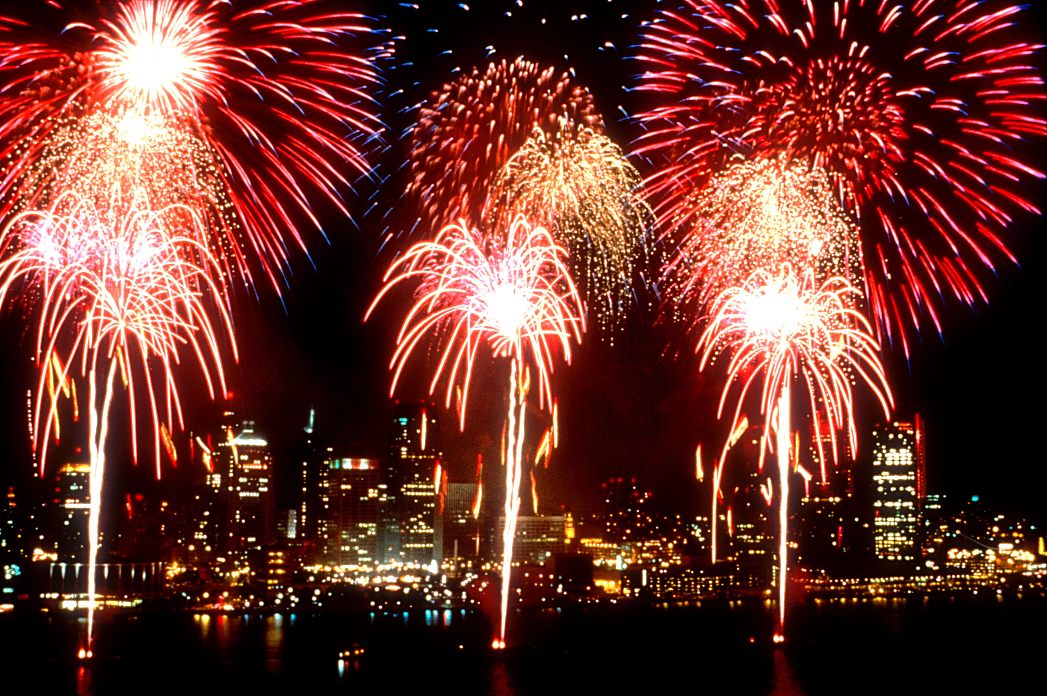 Fireworks display during the Windsor-Detroit International Freedom Festival, as seen from the Art Gallery of Windsor.